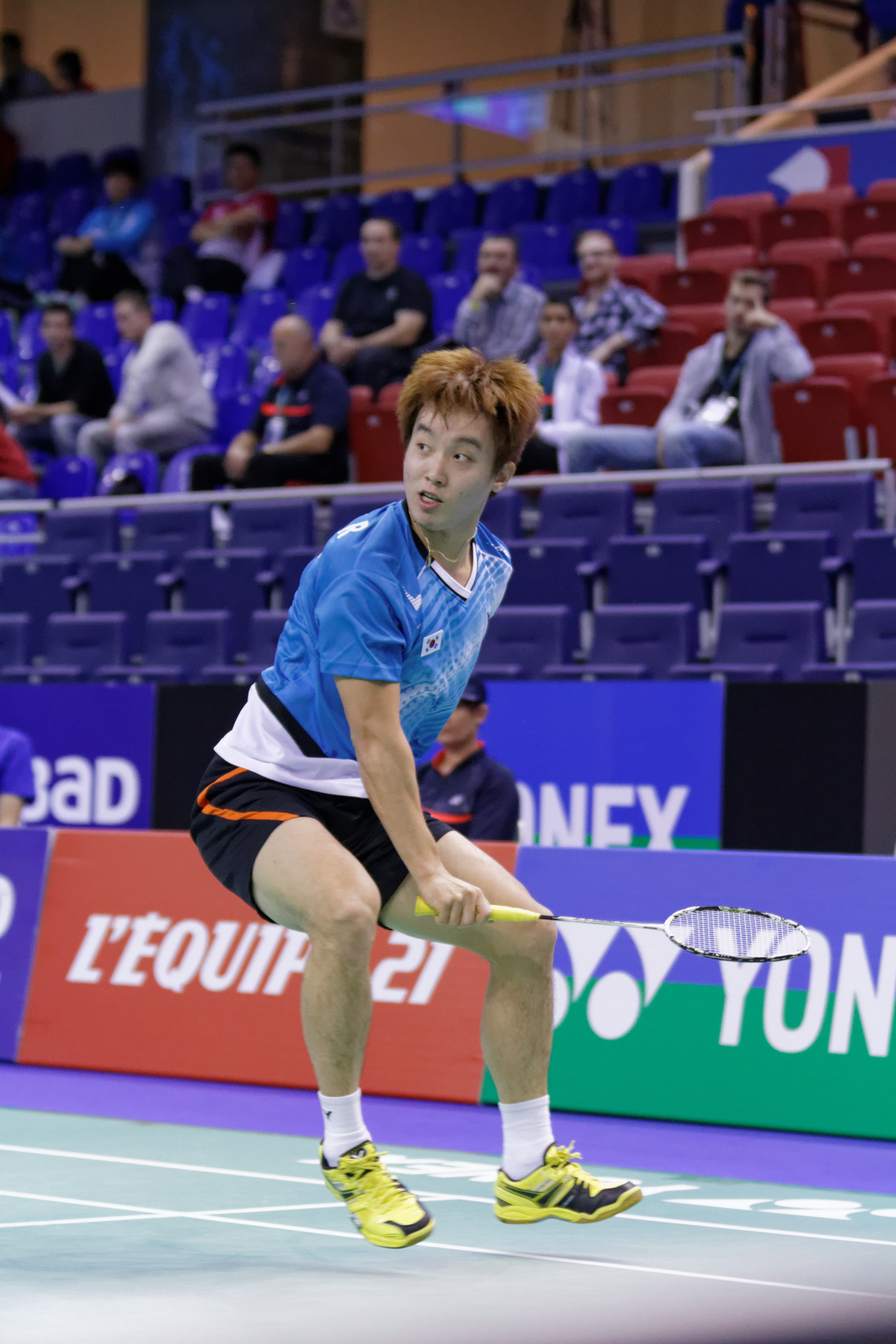 2013 French open. Men's doubles eightfinal. Kim Ki-jung and Kim Sa-rang vs Chris Adcock and Andrew Ellis.